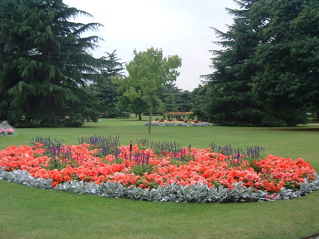 Author: G.Solomon; Source: own photo; Keywords: Greenwich Park Flowers London